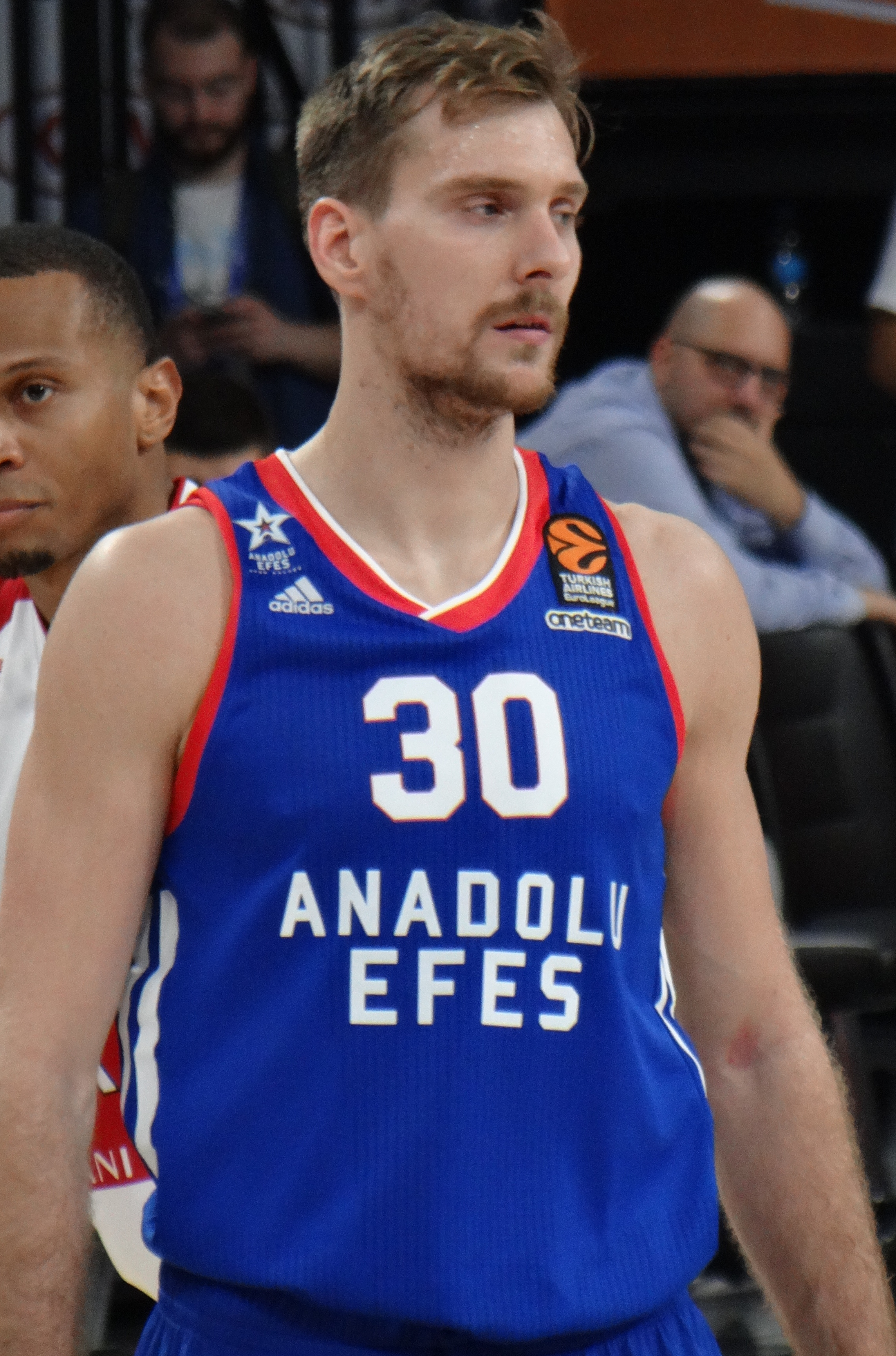 Zoran Dragić 30 - Anadolu Efes S.K. 20171130